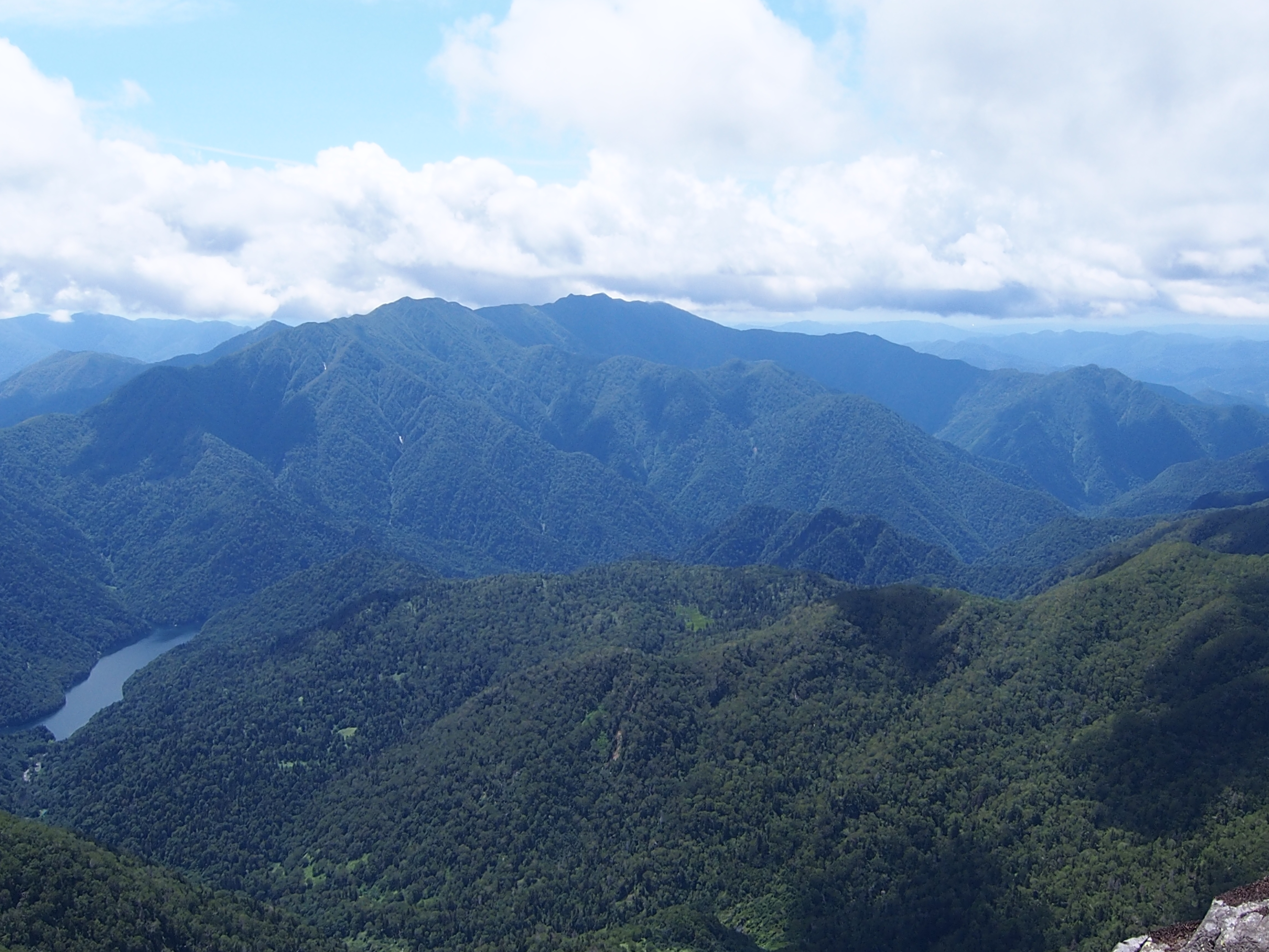 Mount Idonnappu and Lake Poroshiri seen from Mount Poroshiri